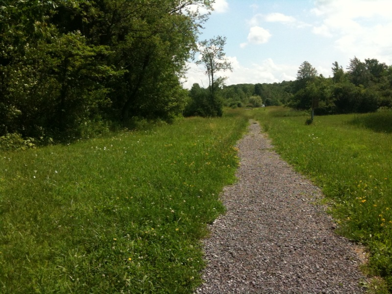 Nature trail, upstate NY